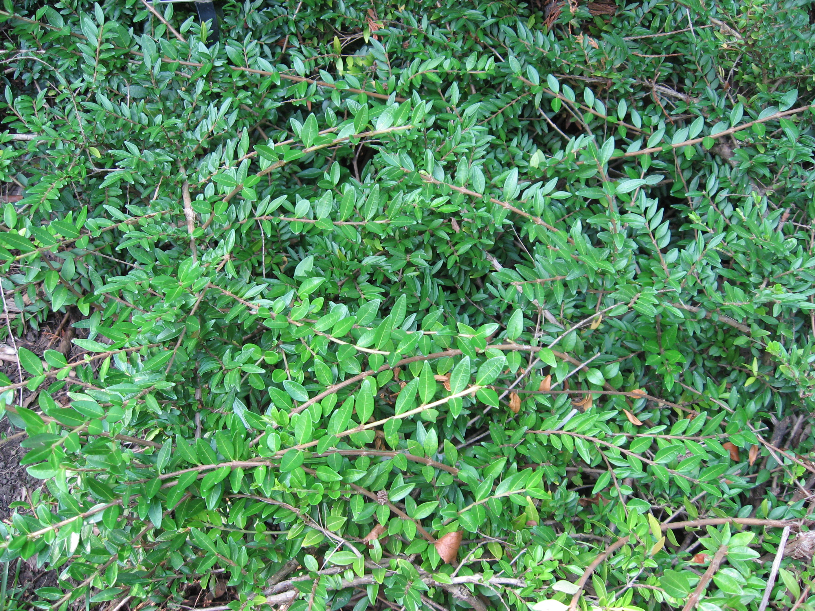 A picture of Lonicera pileata.